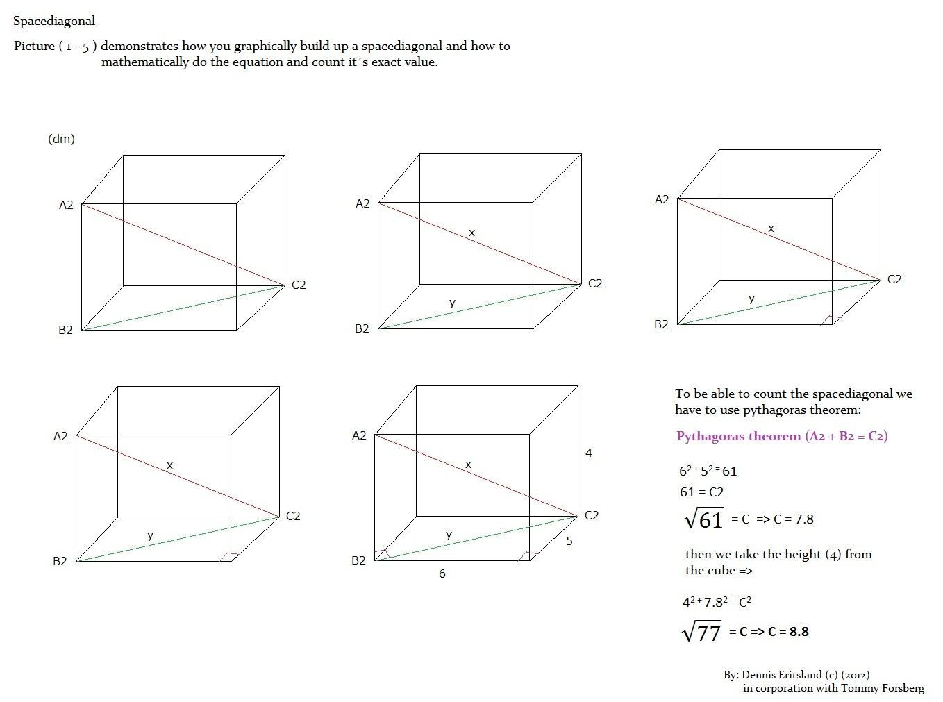 Graphically demonstrates how to make a spacediagonal and mathematically make an easy calculation with pythagoras theorem